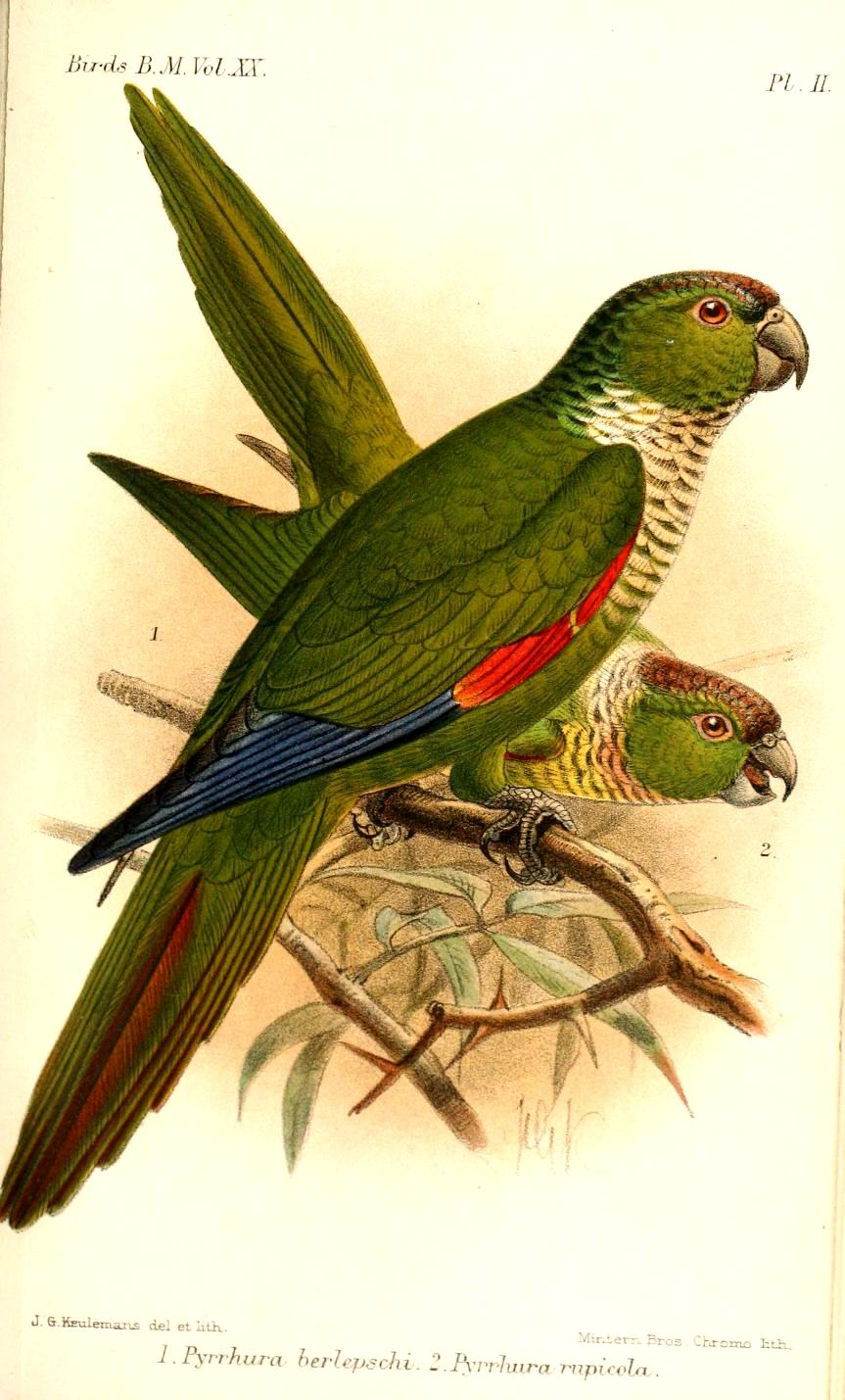 Pyrrhura berlepschi = Pyrrhura melanura berlepschi, Maroon-tailed Parakeet ssp. (in front); and Pyrrhura rupicola, Black-capped Parakeet (behind)